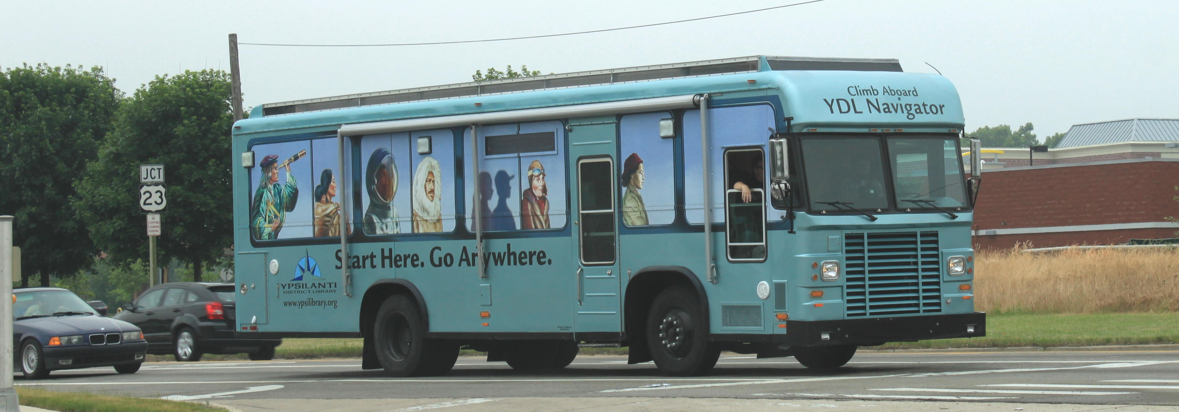 Ypsilanti District Library bookmobile at the intersection of Carpenter Road and Michigan Avenue, Pittsfield Township, Michigan